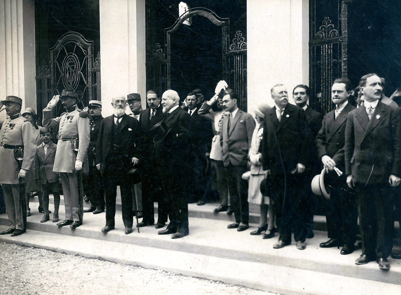 photo of the inauguration of the "Tir de Versailles" (National Shooting Sport of Versailles)